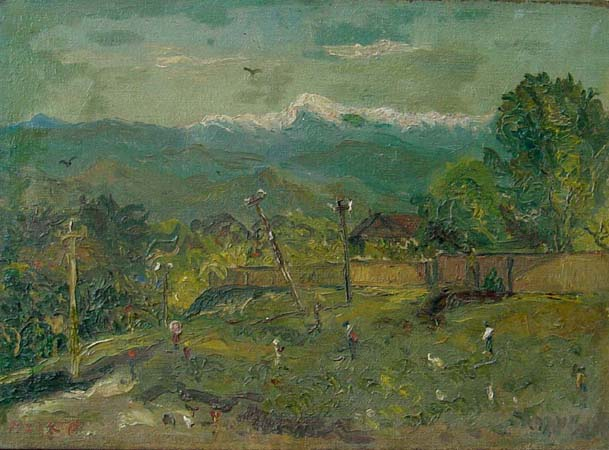 Information: Mt. Yu/ Chen Cheng-po/ 1927/ Canvas/ Oil painting/ 8P